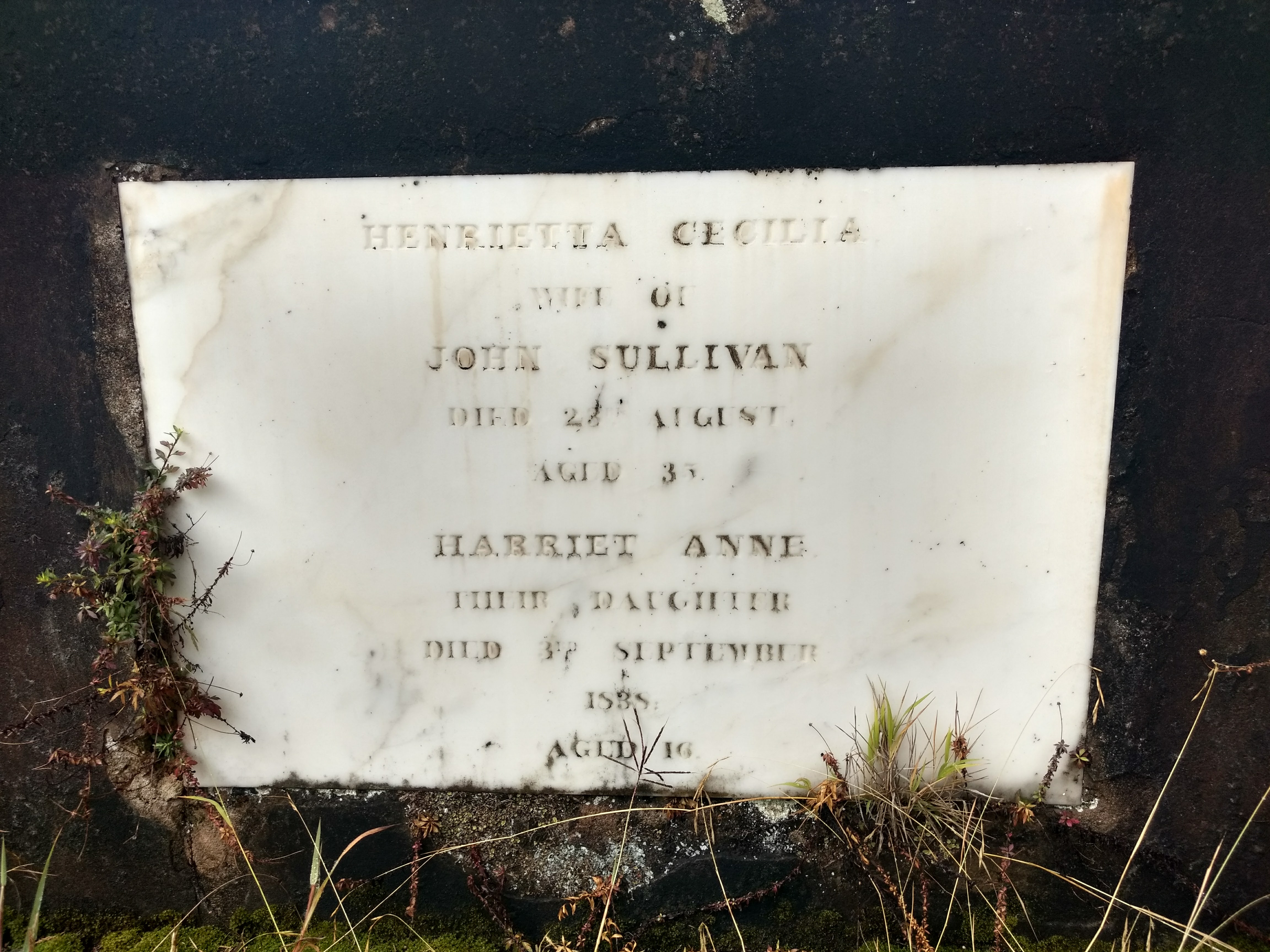 Grave of Henrietta, wife of John Sullivan of Ooty